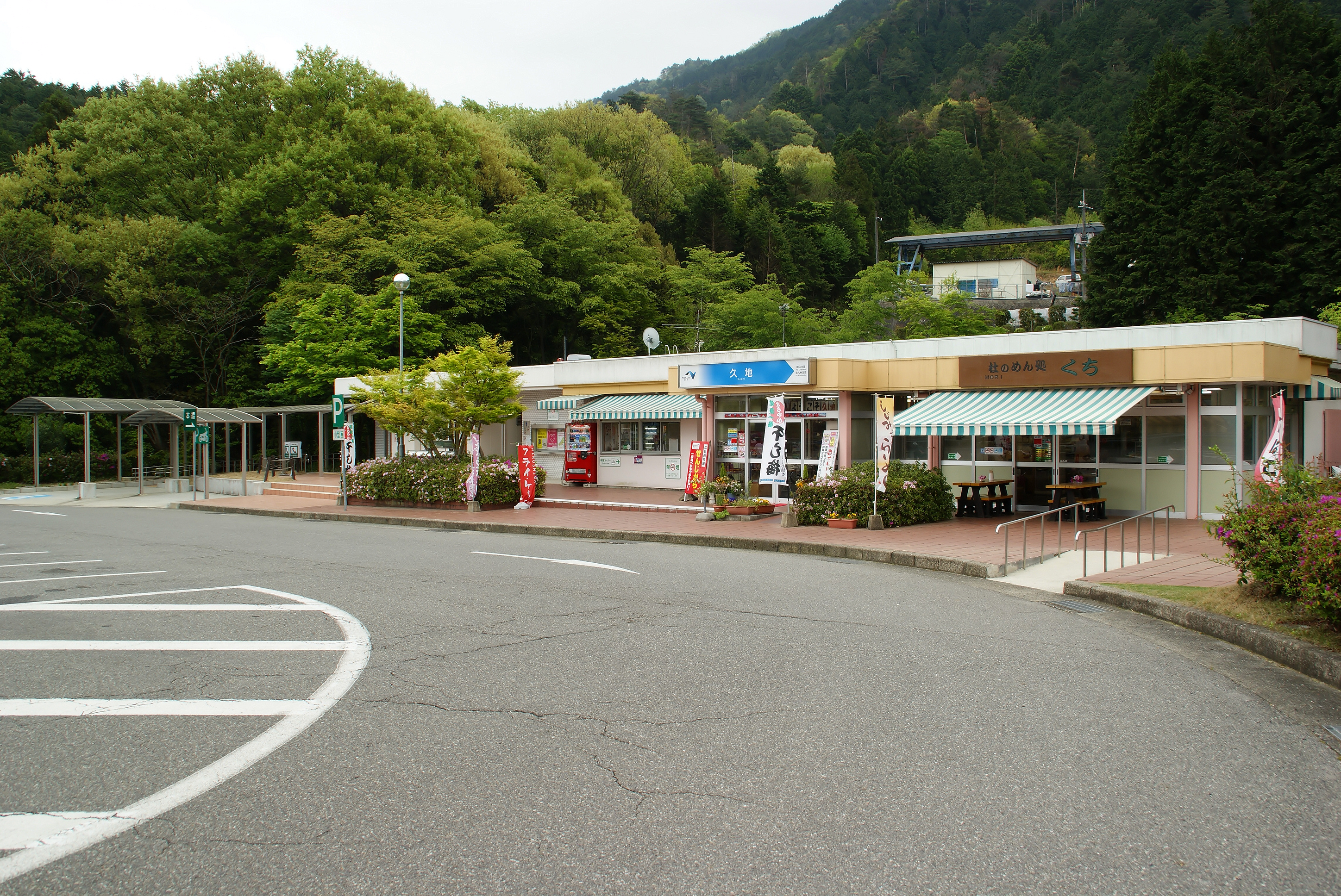 Hiroshima Expressway, Kuchi Parking Area.(Asa-Kita Ward, Hiroshima City, Hiroshima Prefecture, Japan)